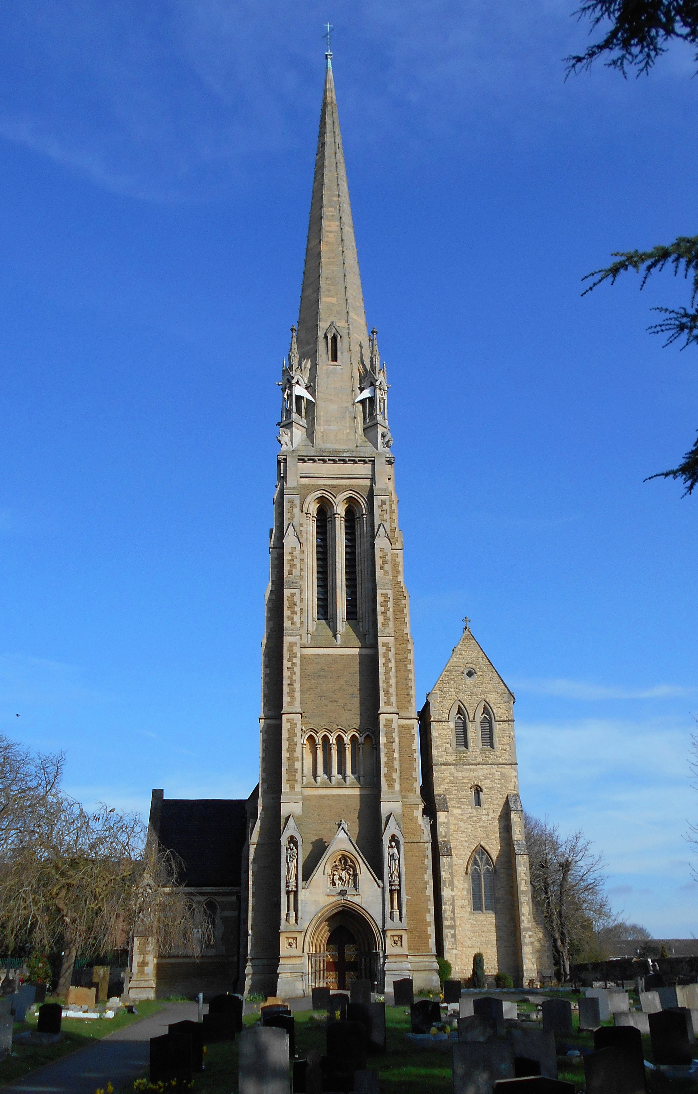 St Maries Church, Rugby